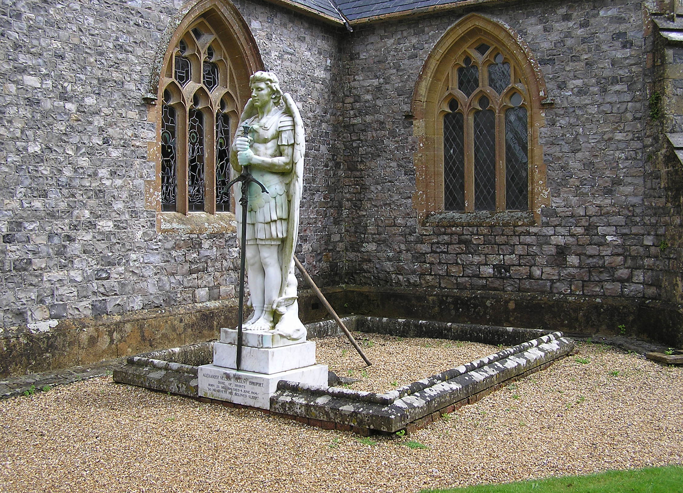 White marble monument to Alexander Nelson Hood, 4th Duke of Bronte, at the Parish Church of Saint Thomas, in Cricket Saint Thomas, Somerset, England. Note that this church is (as of 2008) inside the Warner Breaks Holiday Village complex, but the public are free to visit it. The inscription says: Here rests Alexander Nelson Viscount Bridport. Duke of Bronte Born 23 Dec 1814. Died 4 June 1904. So he giveth his beloved sleep. Taken by Adrian Pingstone in July 2007 and placed in the public domain.